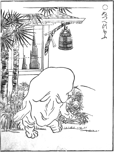 Nuppeppo (ぬっぺふほふ, an animated lump of decaying human flesh) from the Gazu Hyakki Yakō (画図百鬼夜行)